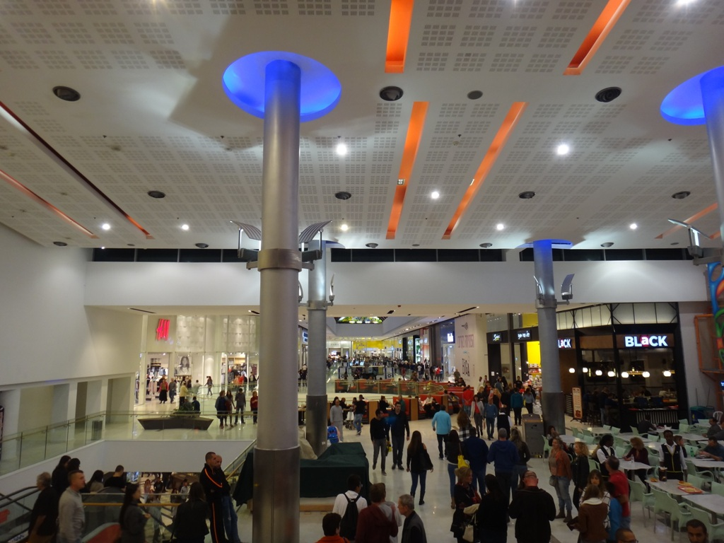 Inside view of Ayalon Mall after the completion of the second floor extension